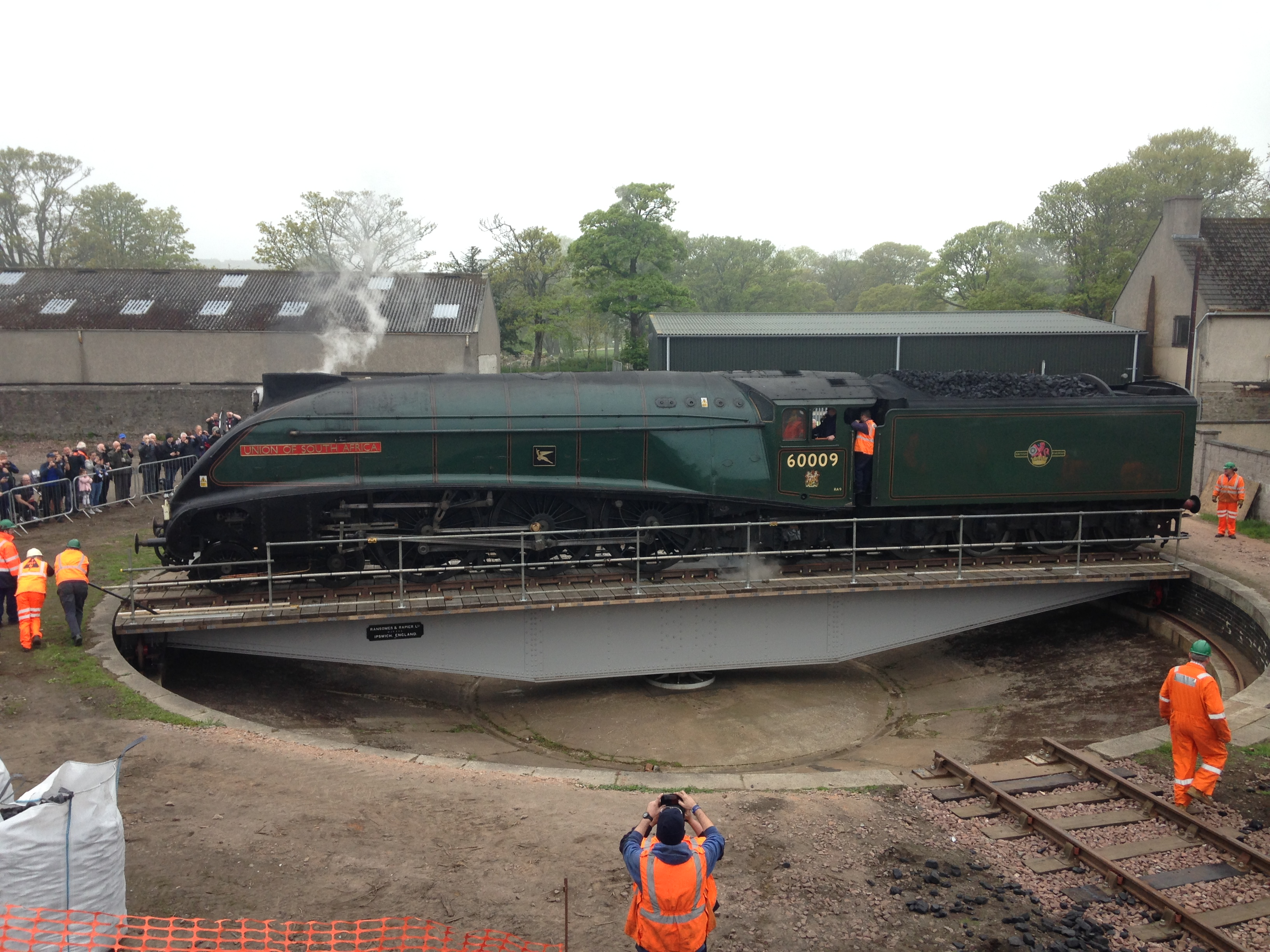 No.9 Union of South Africa A4 Pacific on the Ferryhill turntable, May 2019